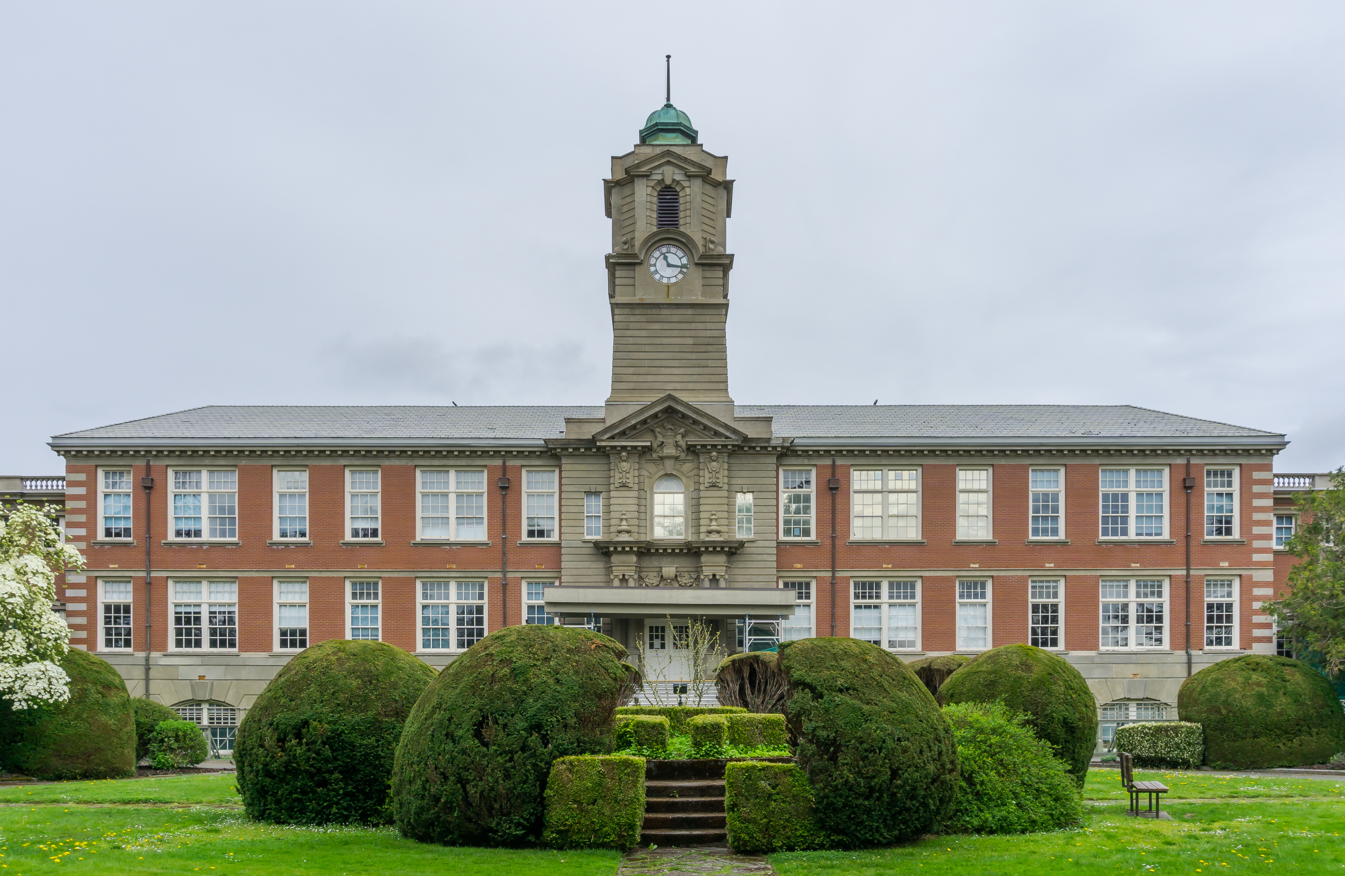 Provincial Normal School, Saanich, British Columbia, Canada